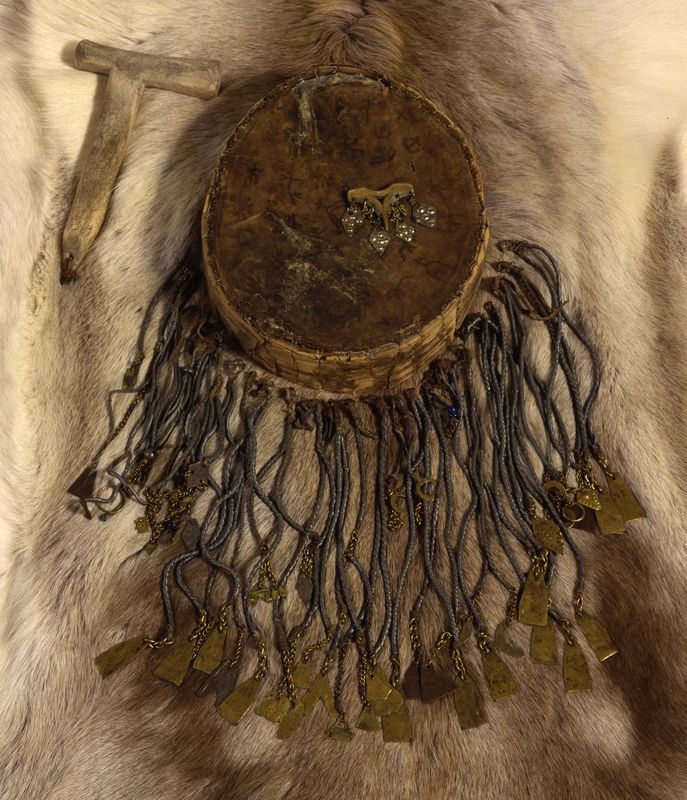 Sami drum from Bindal, Norway